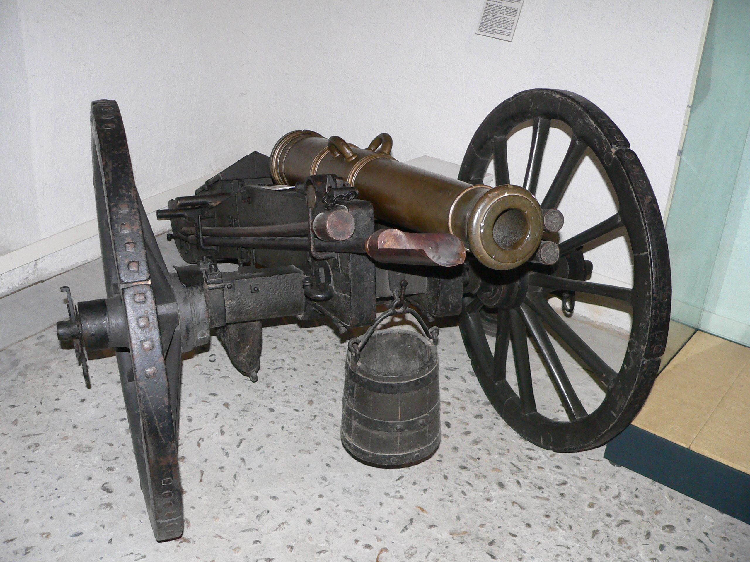 piece on display at the Musée de l'Artillerie, Morges castel, Switzerland